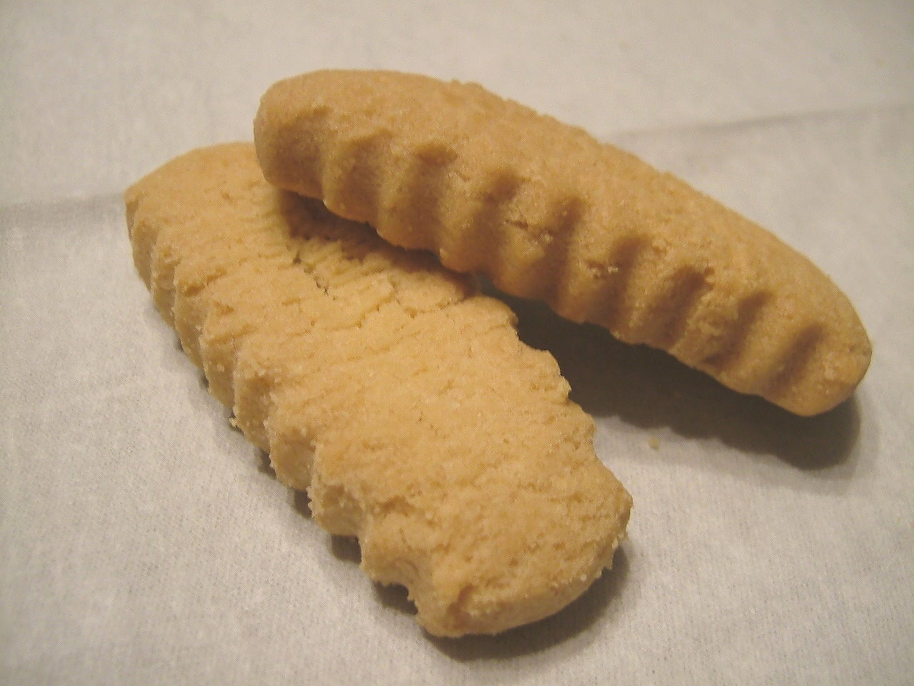 Chinsukō is a traditional biscuit (or cookie) in Okinawa. Photo taken on 6 April 2006 by Kkkdc.